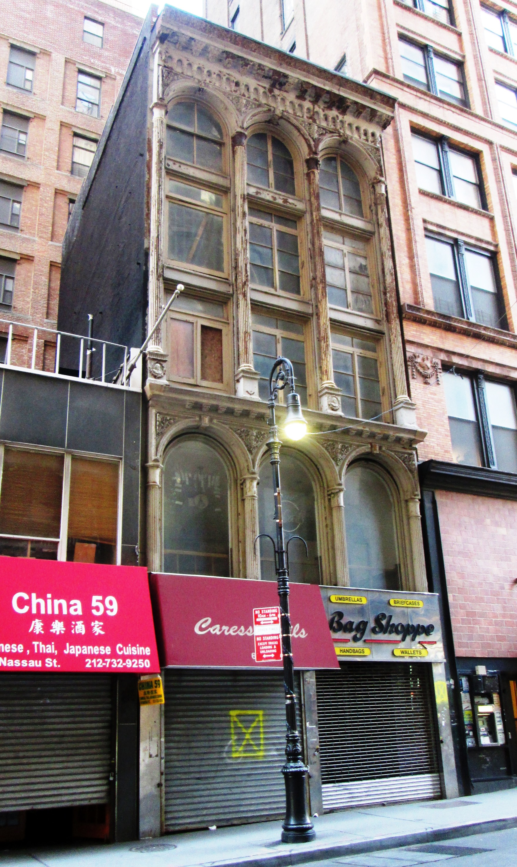 63 Nassau Street between Fulton and John Streets in the Financial District of Manhattan, New York City was built in the Italianate style c.1844, and had its cast-iron facade, attributed to James Bogardus, added in 1857-59, making it one of the first cast-iron buildings in the city. The attribution to Bogardus is because of medallions of Benjamin Franklin identical to four other non-extant Bogardus projects. George Washington was also once represented. (Sources: AIA Guide to NYC (5th ed.) and Guide to NYC Landmarks (4th ed.))